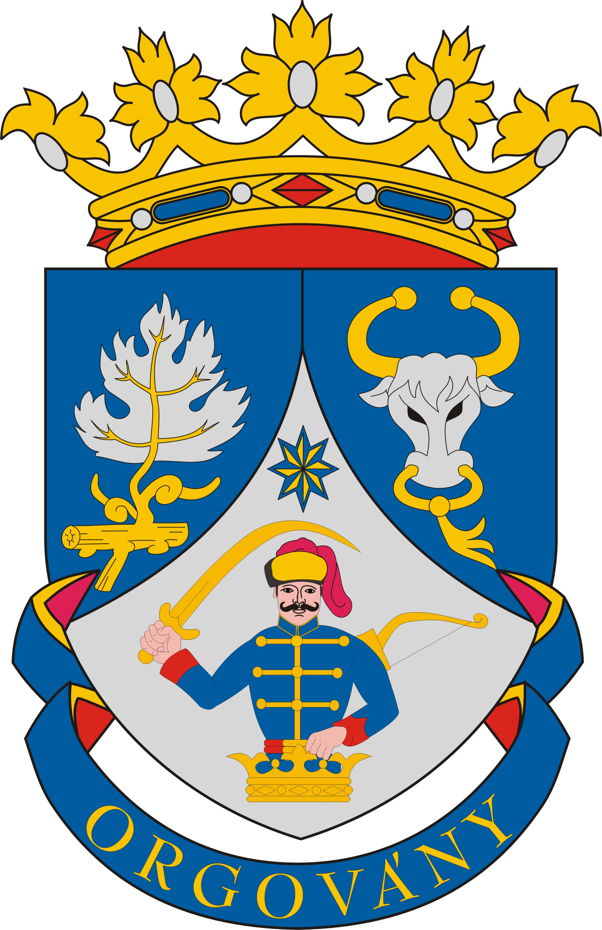 Coat of arms of Orgovány, Hungary